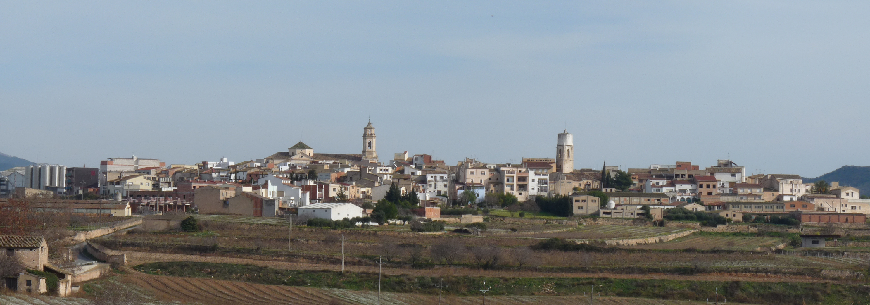 Vilabella